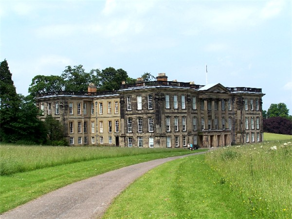 Calke Abbey Taken by kev747